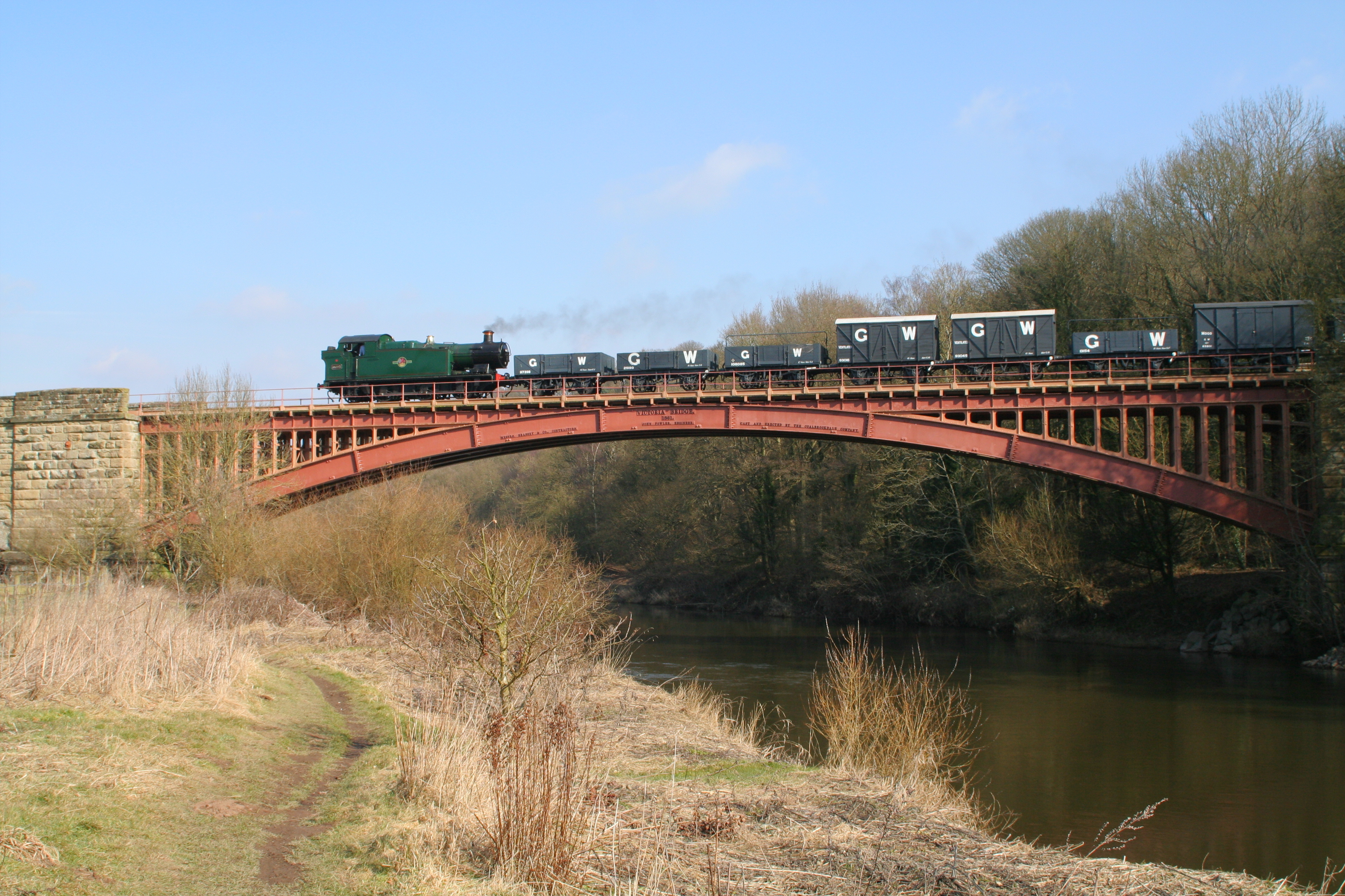 56xx class No. 6695 passing over Victoria Bridge with its freight train.